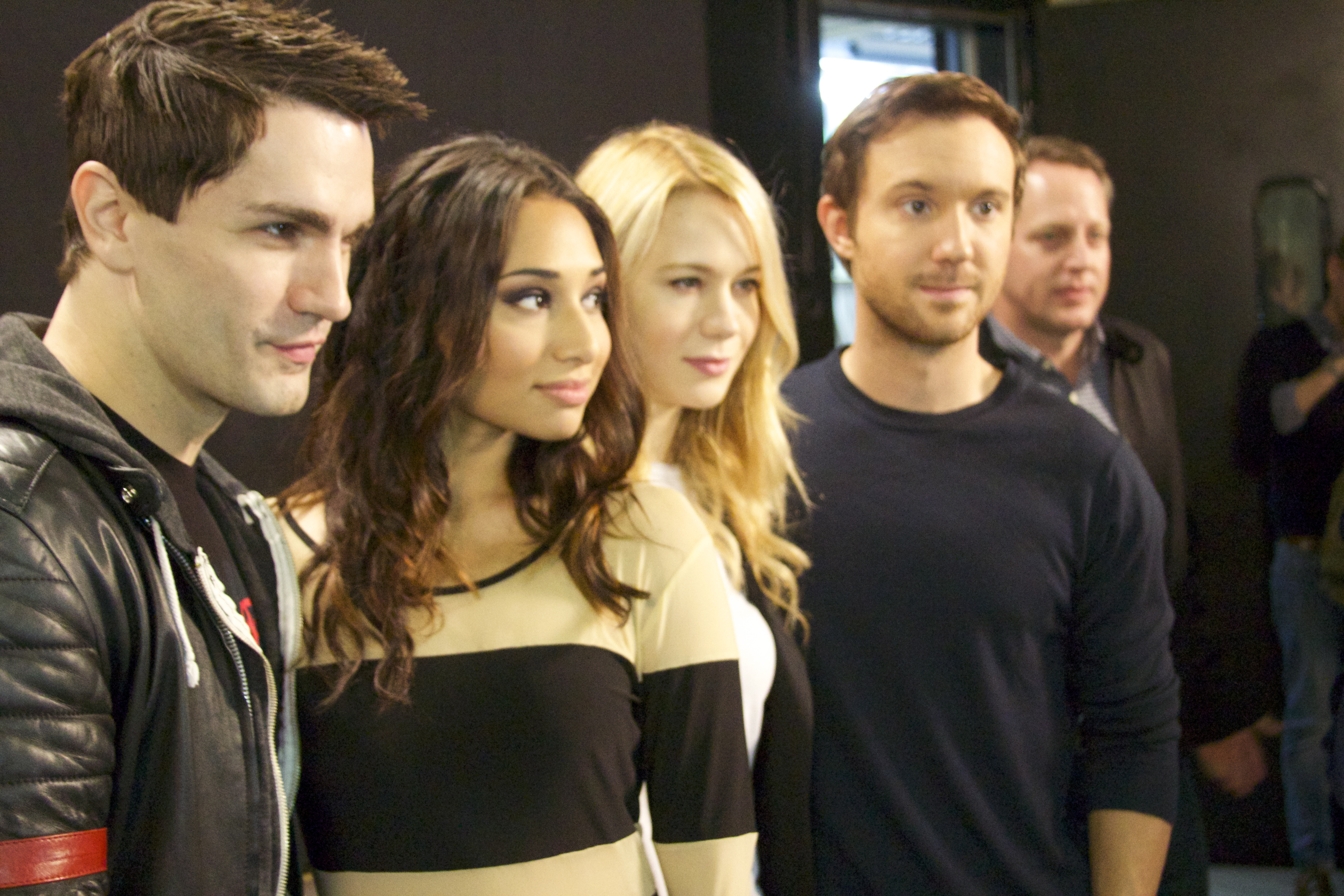 The 2013 2013 Syfy Channel Press Day